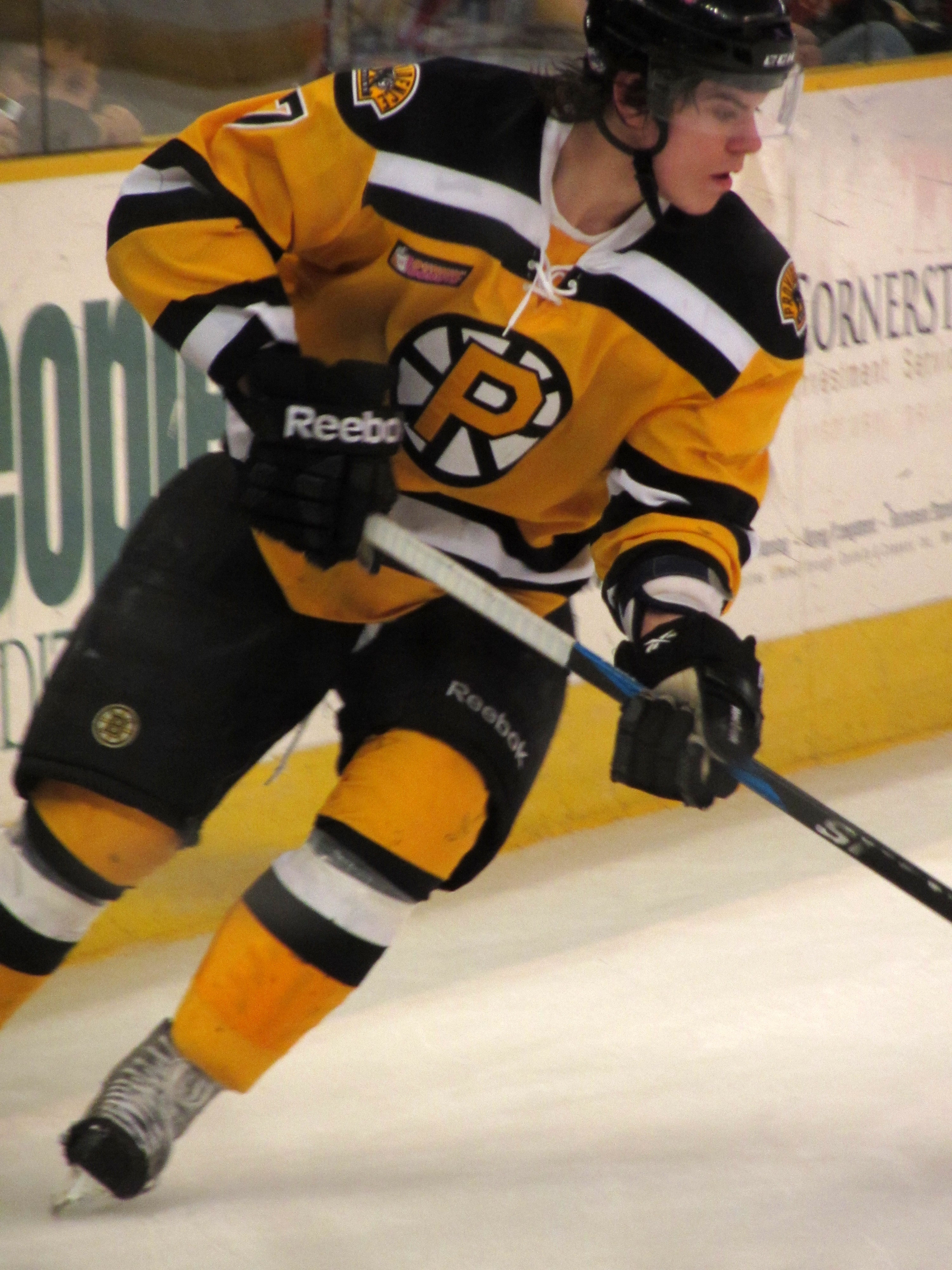 Maxime Sauvé of the Providence Bruins jersey